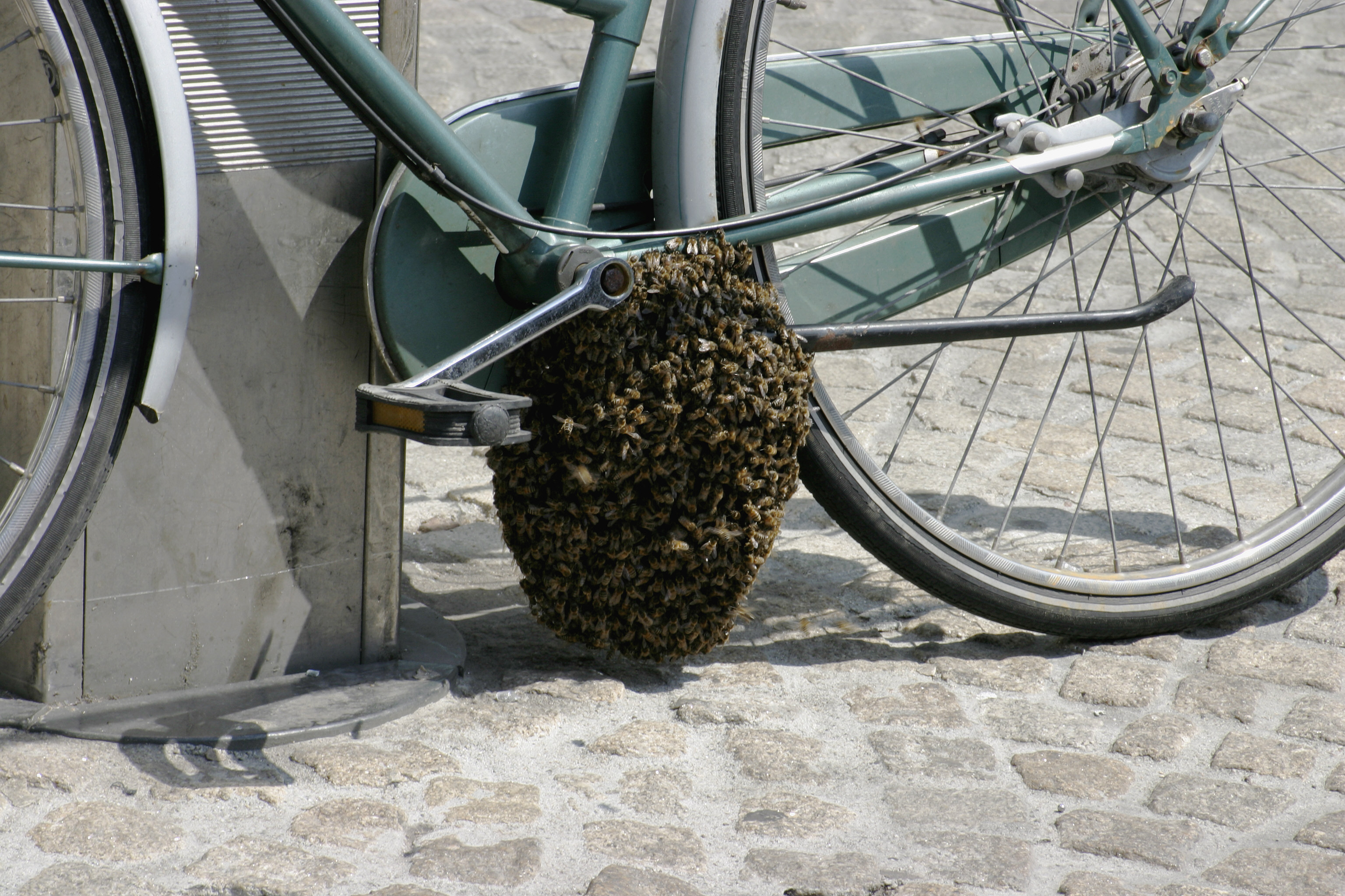 Bee swarm on a bicycle